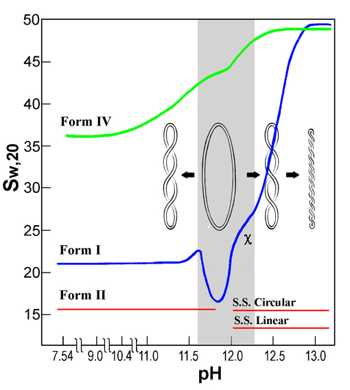 Idealized pH titration of the sedimentation coefficient (s) of small circular duplex DNA (Form I) and it’s derivative forms (II-IV). This sort of behavior has been observed in numerous different species of both plasmid and viral chromosomal DNA, and is considered to be, for the most part, ubiquitous in covalently-closed circular DNA.